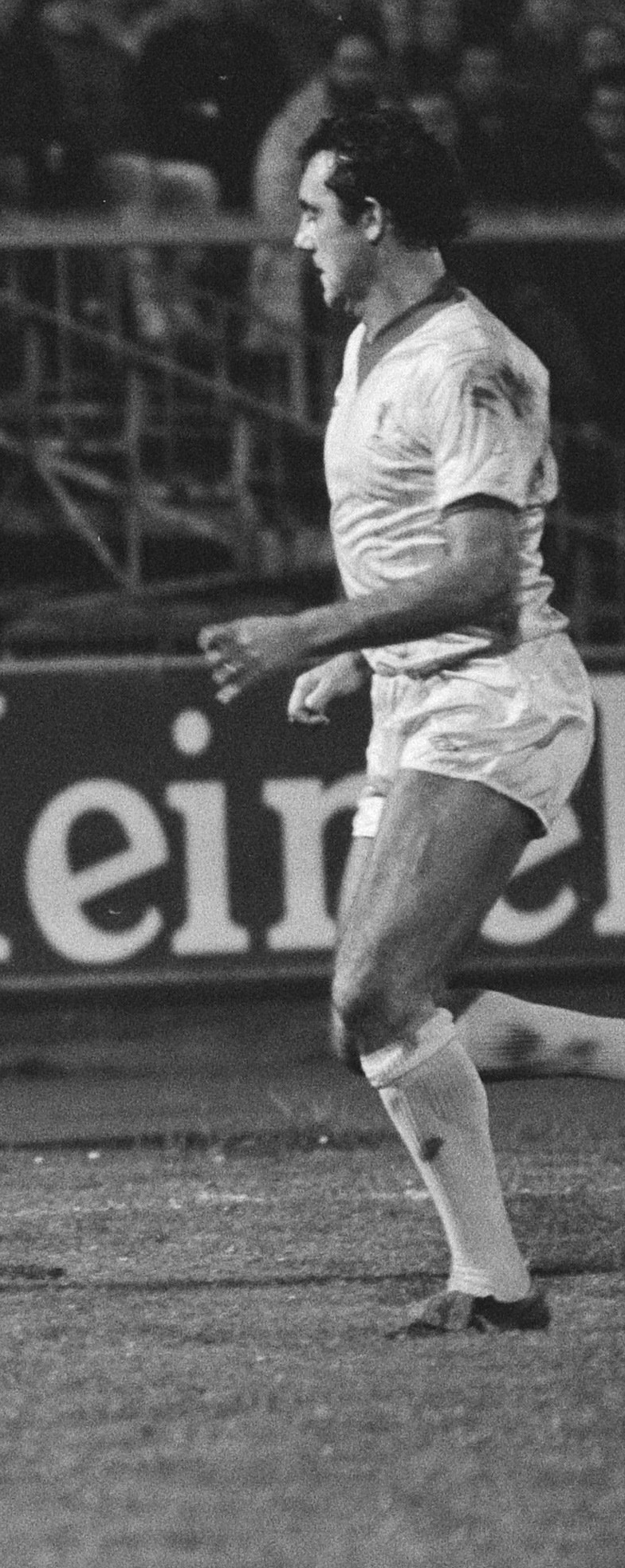 Ray Kennedy